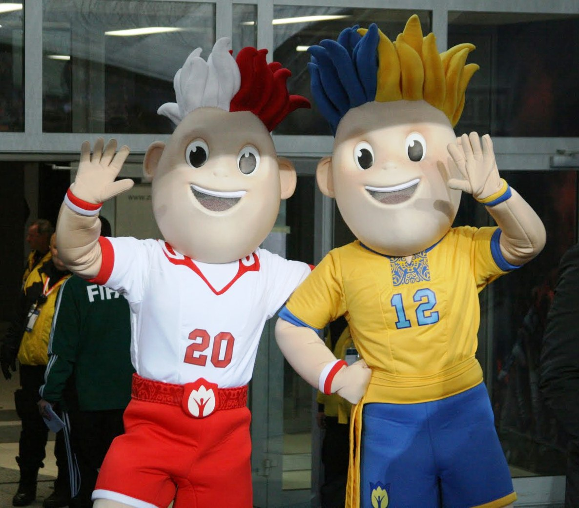 UEFA Euro 2012 mascots - Slavek and Slavko